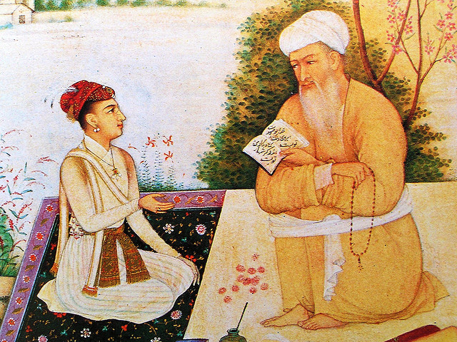 Dara was a devotee of Mian Mir, a celebrated Muslim saint, and he even compiled a biography of Muslim saints, which he would not have done had he ceased to be a Muslim. He was however eclectic, and inclined to pantheism.